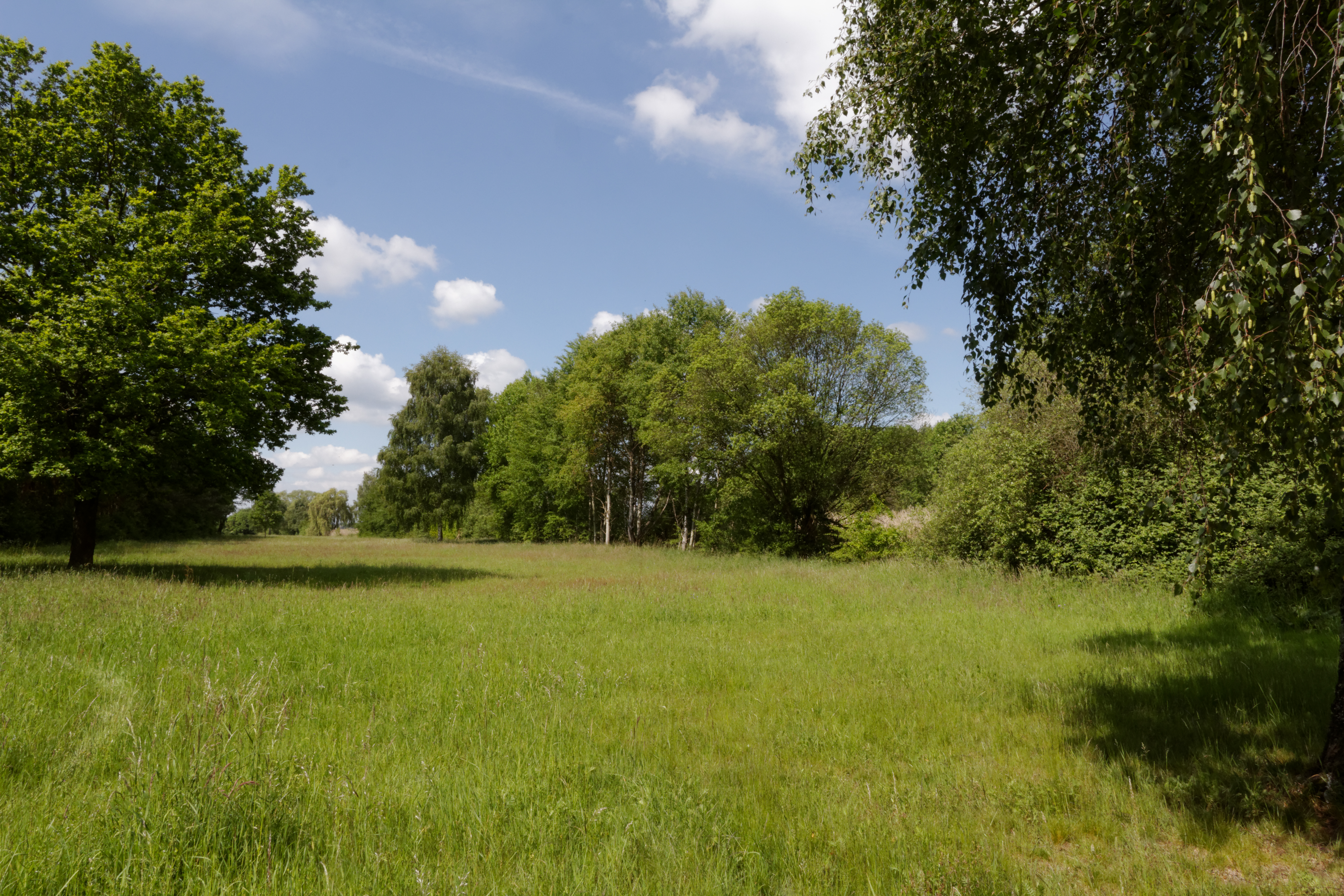 Nature reserve ”Rodauwiesen bei Rollwald“ near Rodgau, Hessen, Germany.